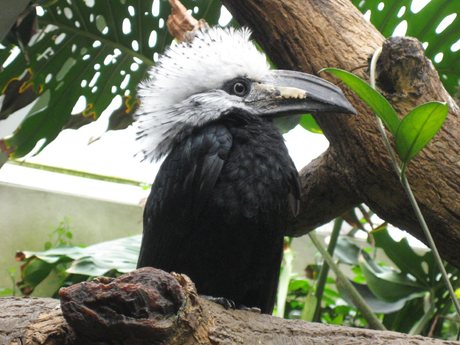 White-crested Hornbill (Tropicranus albocristatus) at Central Park Zoo, USA.